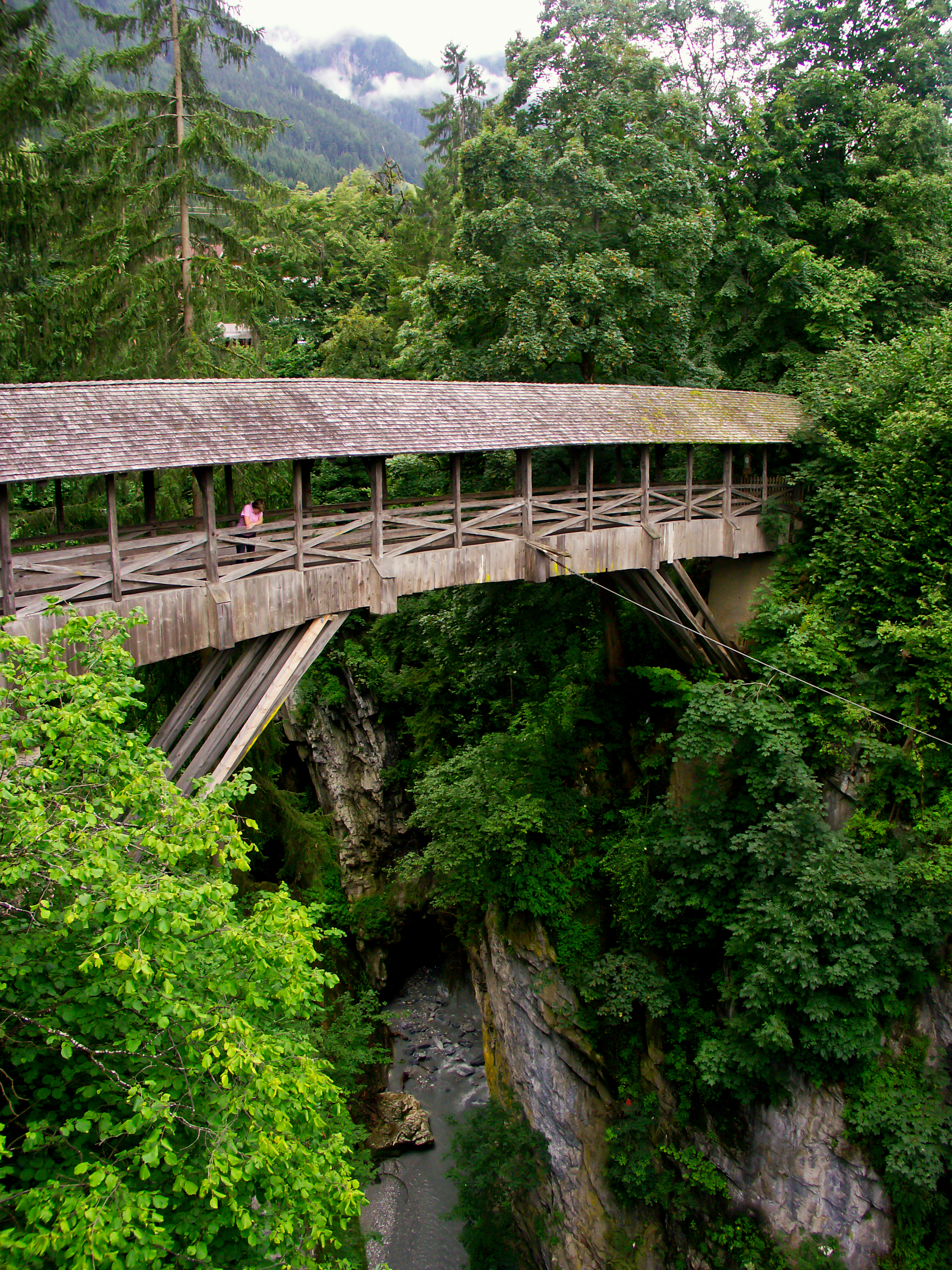 Teufelsbrücke in Finkenberg/Tyrol